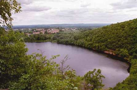 View from Pistapaug Mountain. Connecticut. by Paul Gagnon